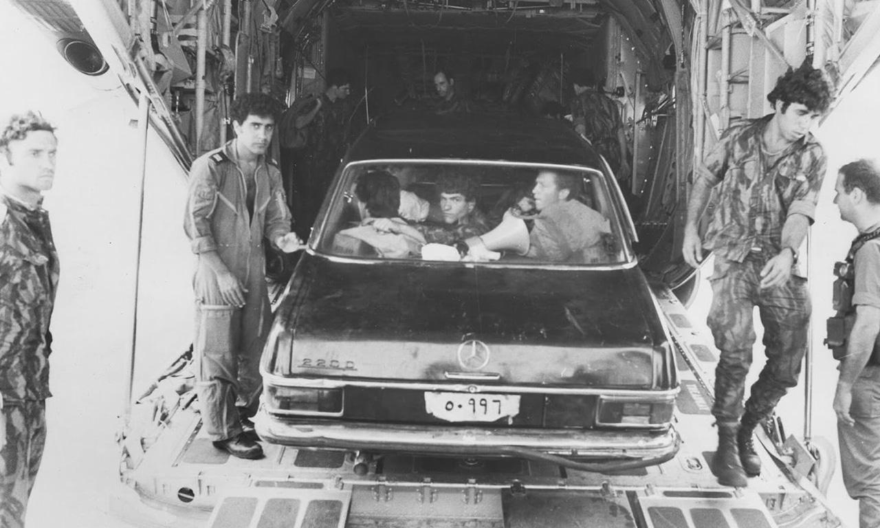 Commandos from Sayeret Matkal with the Mercedes they used to deceive the Ugandans (Photo IDF Spokesman).